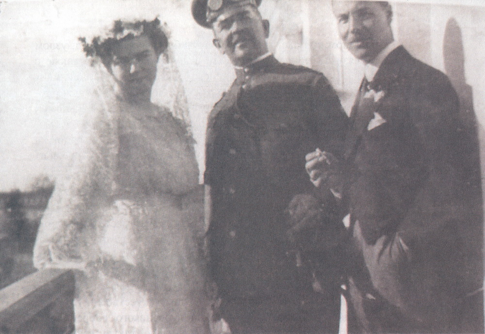 belorussian noblemen: (from the left) Alexandra Horwat (1895—1943), Edward Horwat (1866–1935), Stanislaw Wankowicz (1885—1943). Photoed in Rudakou village (Russian empire, Minsk region), 1909 AD